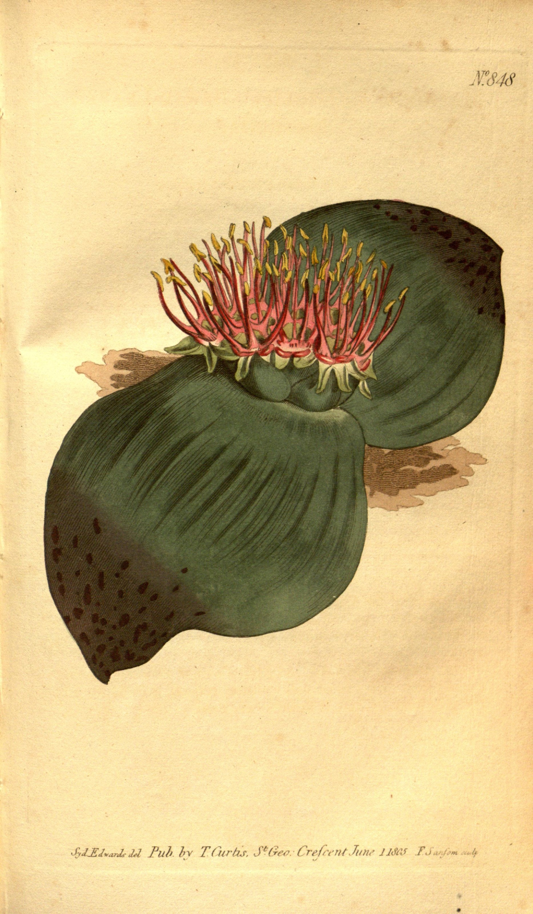 TS4S .iyJ£J*ar.L M Pub bv T(urhs. &&eo.CrefcentJitnt JMV F.